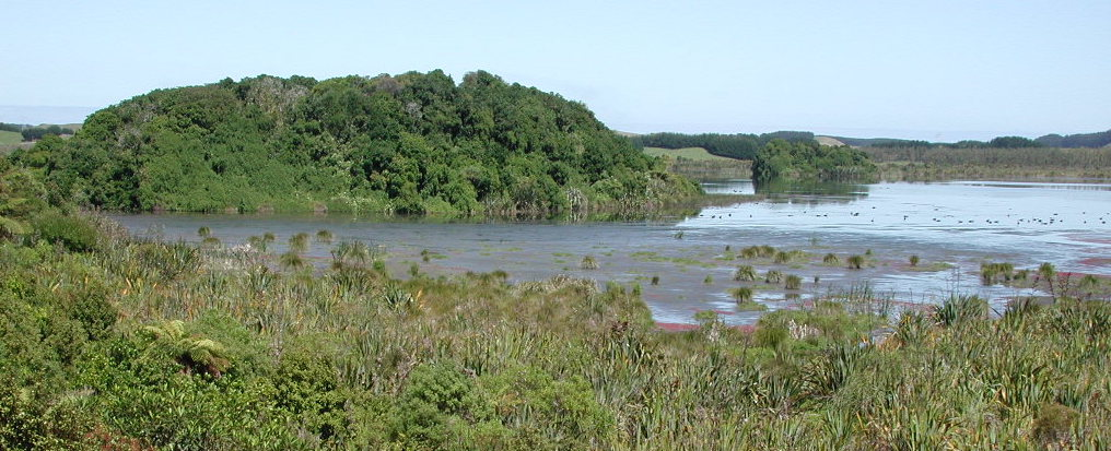 Lake Papaitonga in Lake Papaitonga Scenic Reserve, south of Levin.